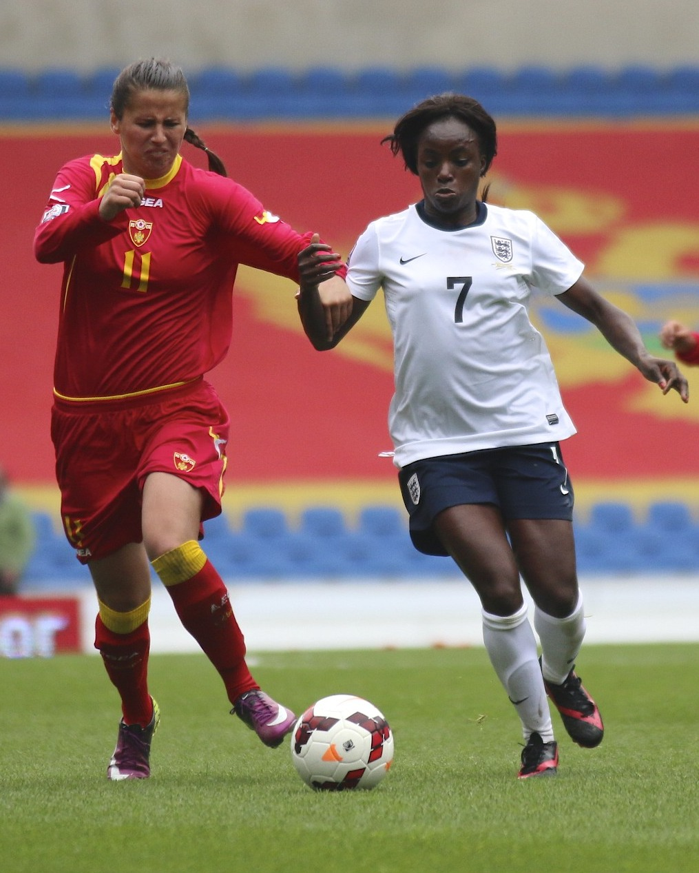 Eniola Aluko of England v Armisa Kuć of Montenegro.